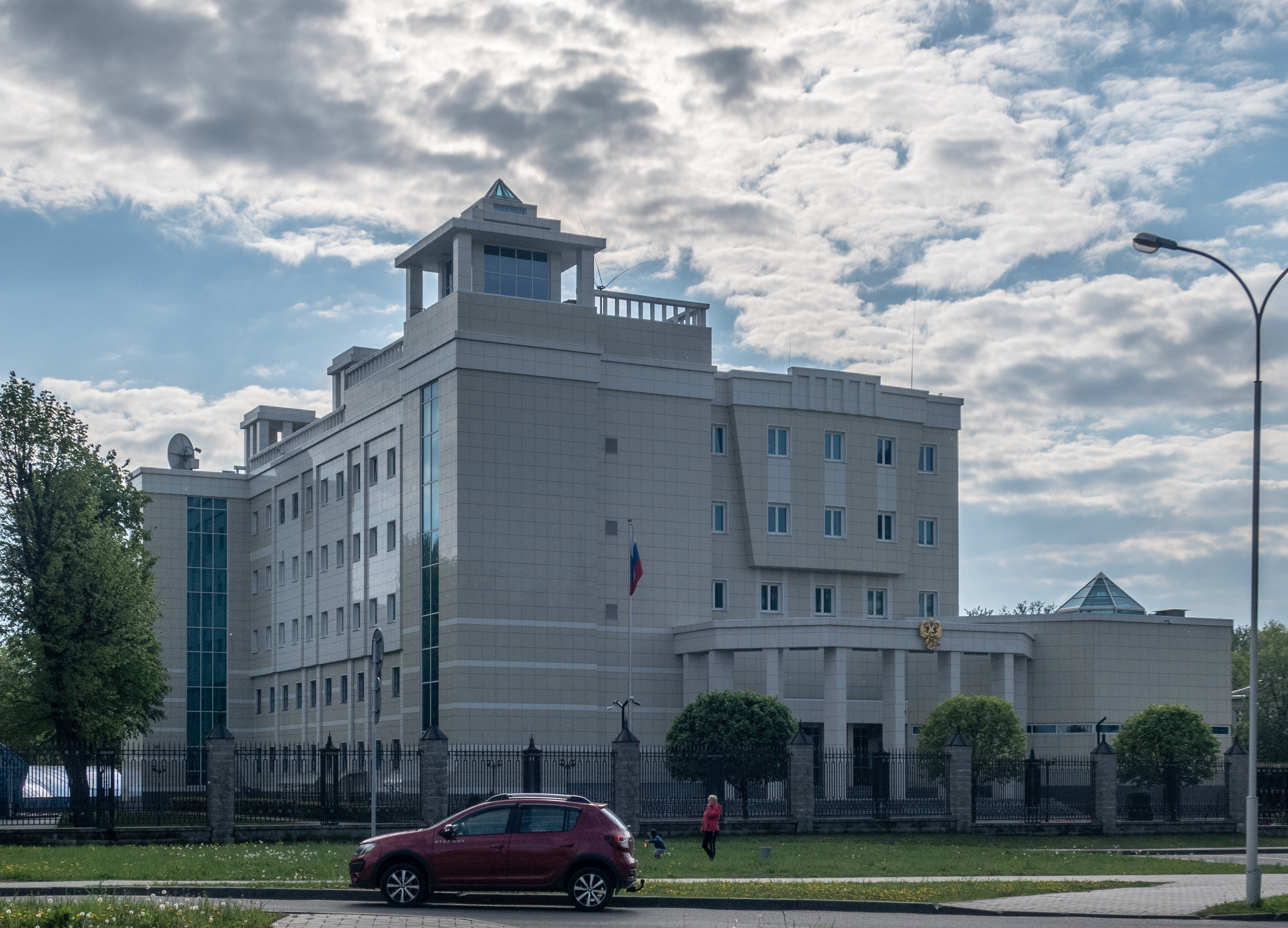 Embassy of Russia in Belarus. 1A Navavilienskaja street (Minsk, Belarus)